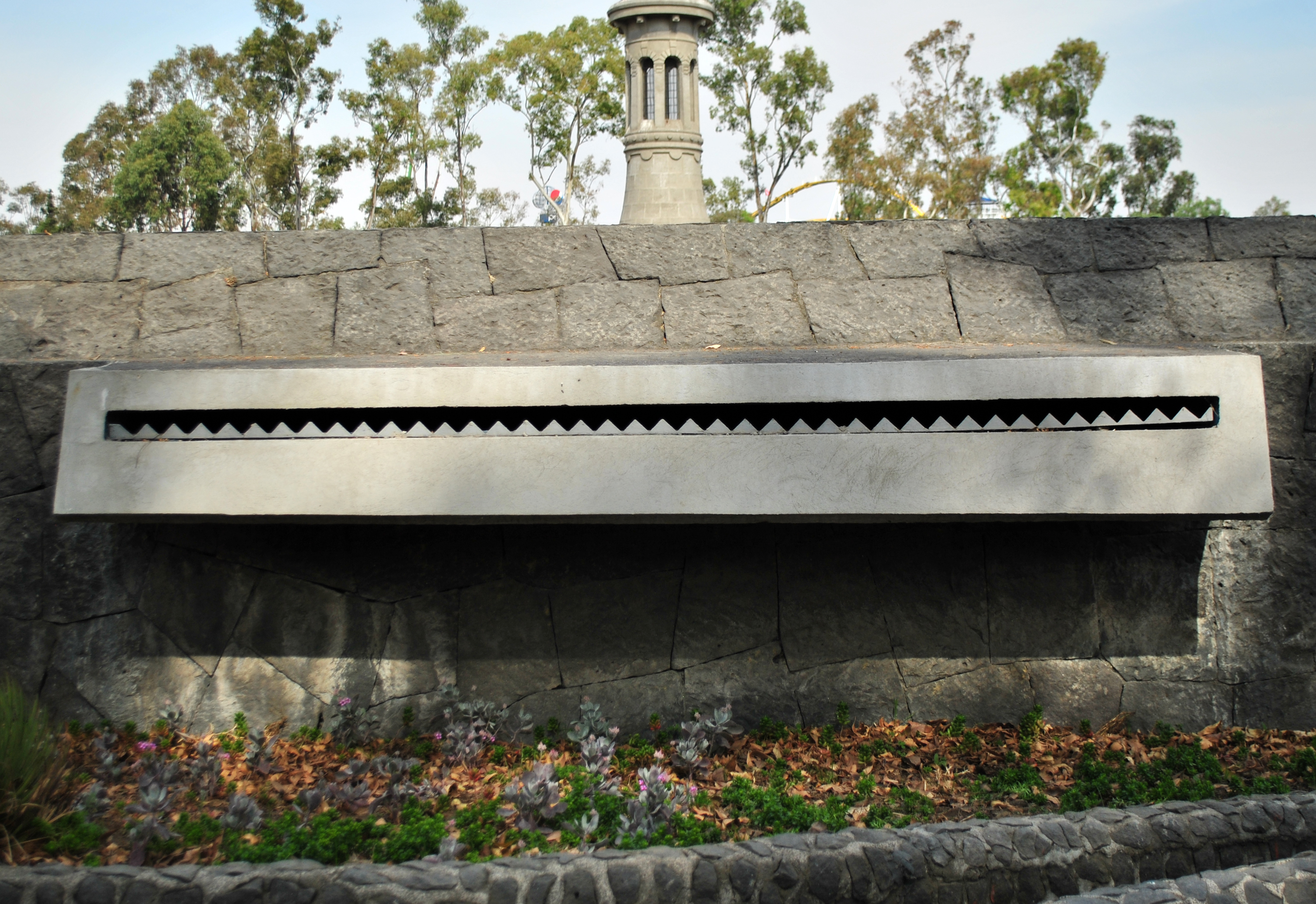 Font element in the storage tanks, Carcamo of Dolores. Bosque de Chapultepec, Second Section, Mexico City.